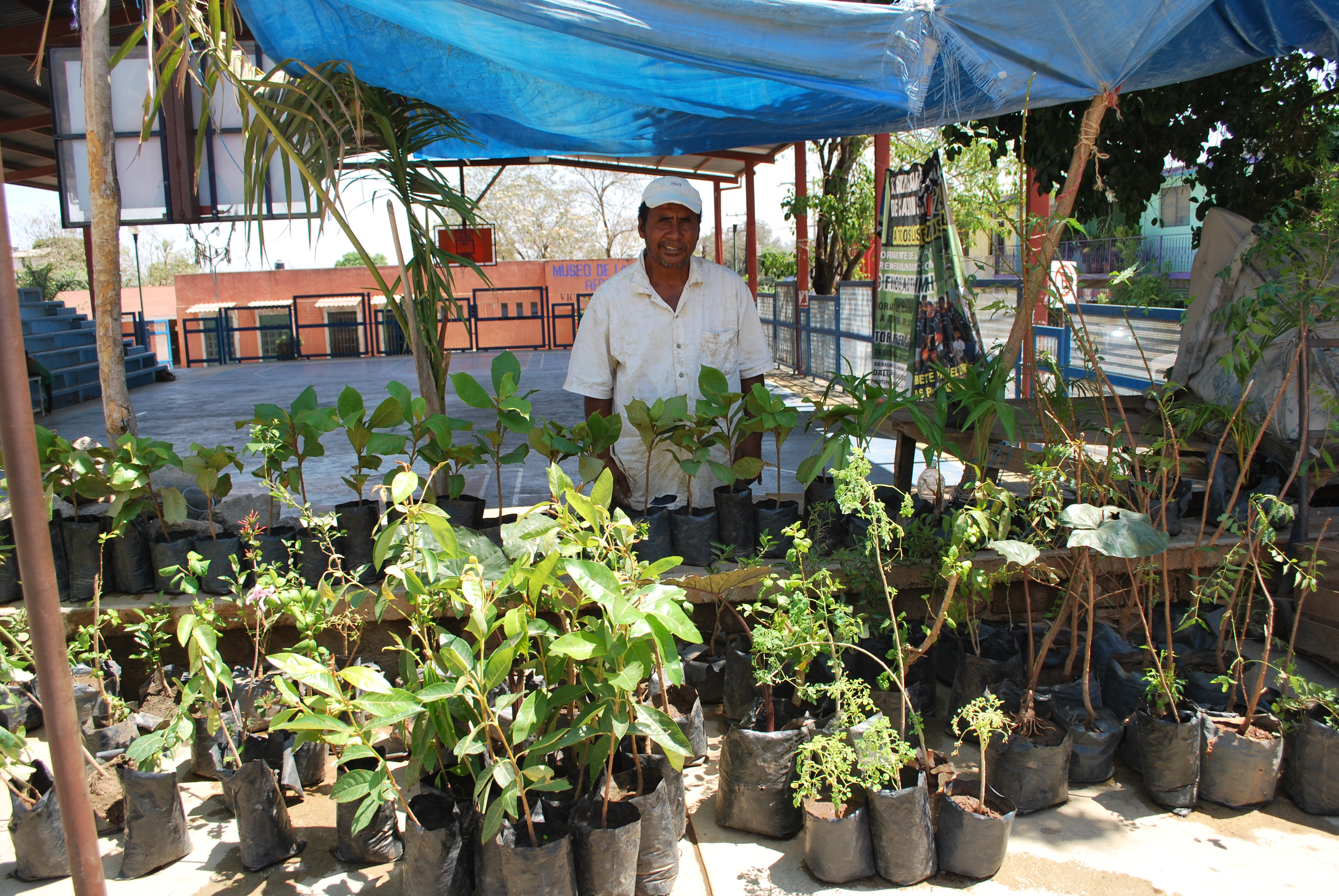 Man selling plants on street in Cuajinicuilapa, Guerrero